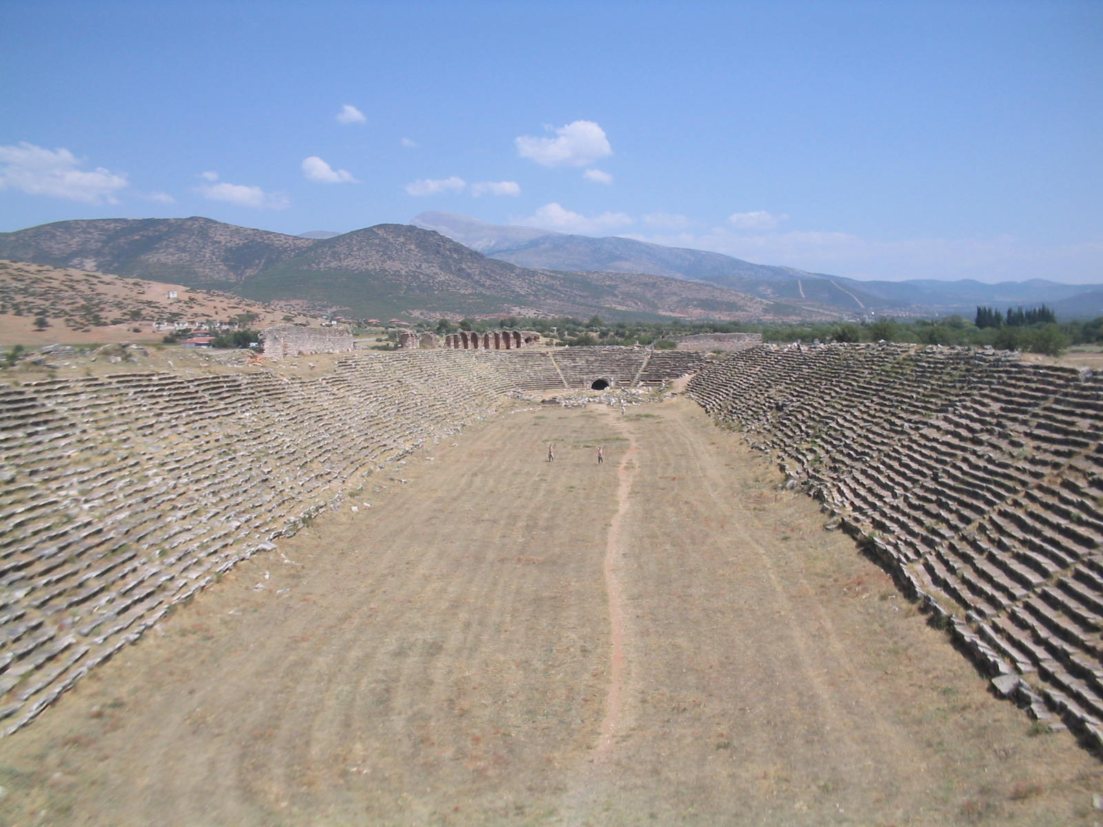 Stadium in Aphrodisias, Turkey.